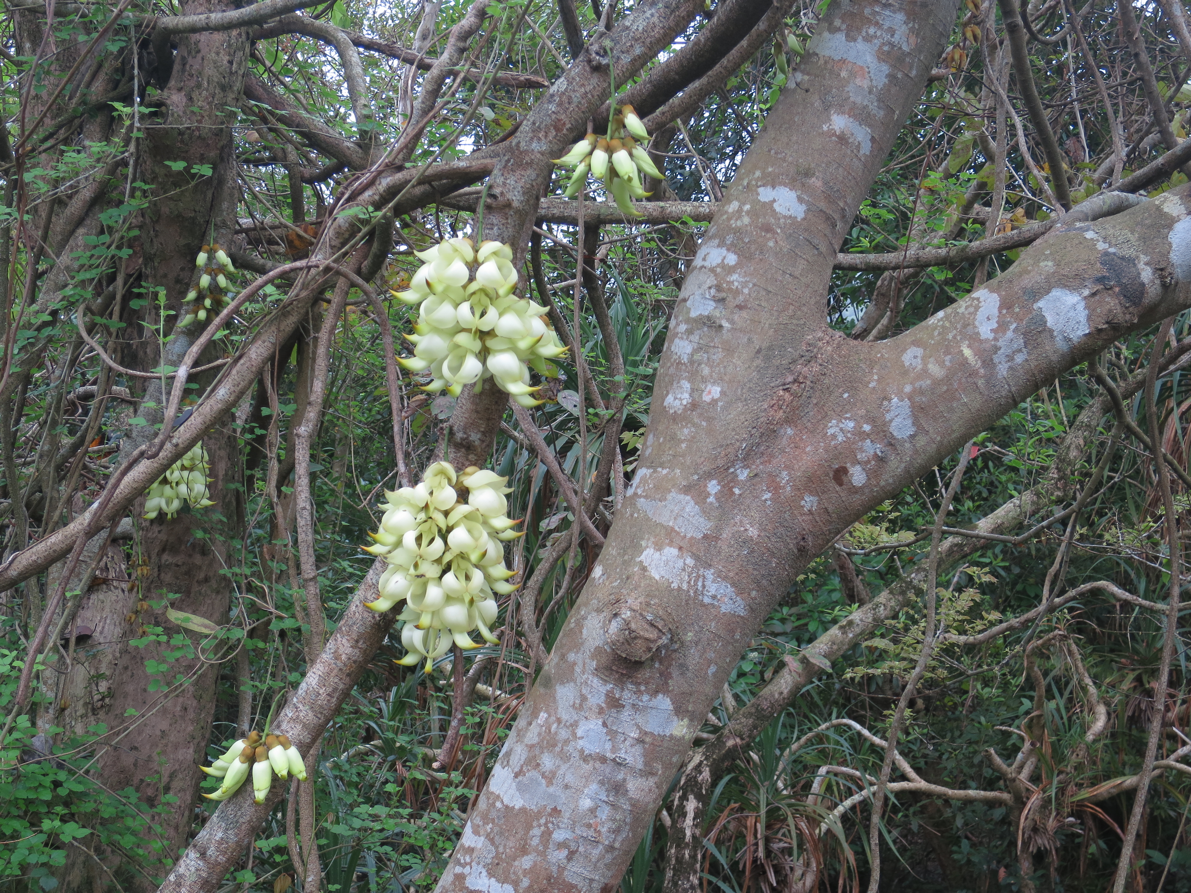 Mucuna birdwoodiana in Sai Kung, Hong Kong